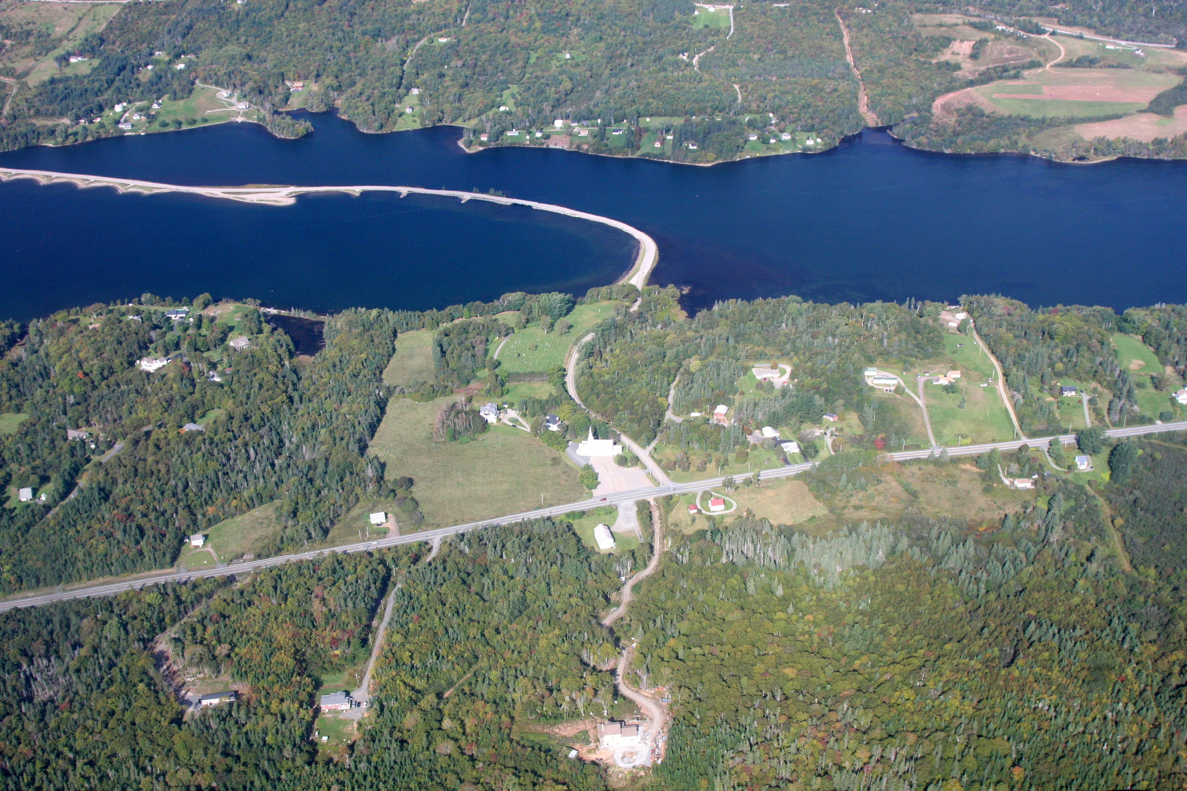 East Bay is a community in the Canadian province of Nova Scotia, located in the Cape Breton Regional Municipality on Cape Breton Island. It is situated on the south side of the East Bay of the Bras d'Or Lake, from which it gets its name. East Bay has one public beach (East Bay Sandbar) and a large number of summer cottages with beach front property. East Bay has a Catholic church, St. Mary of the Assumption Church (visible in the photo). East Bay Sandbar, carrying Chapel Road across the East Bay of the Bras d'Or Lake can be clearly seen. The community was the site of the College of East Bay (1824-1829) which was moved to Arichat and later Antigonish where it became St. Francis Xavier University.